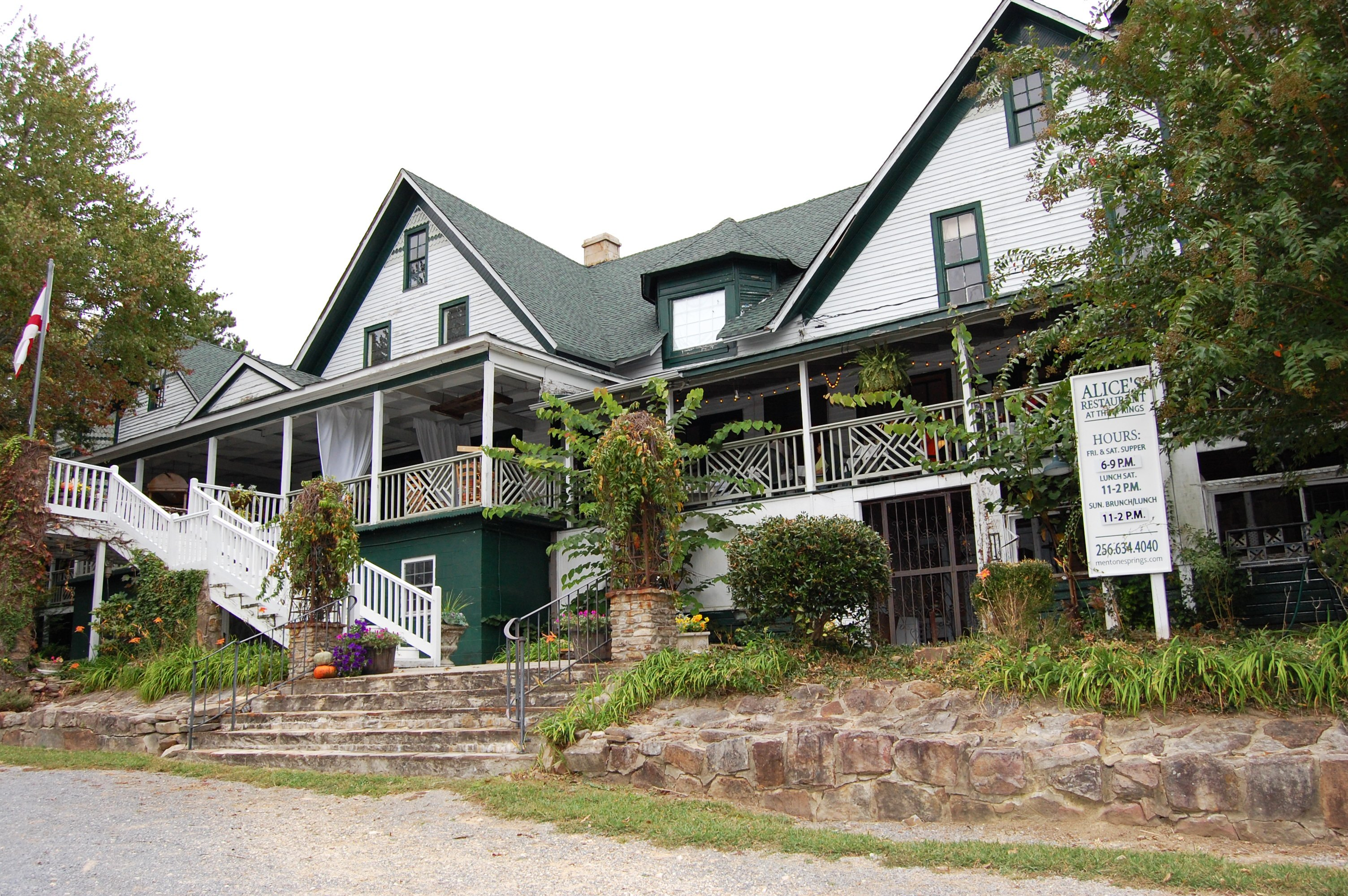 This hotel is located in Mentone,AL. It was constructed in 1884. Beside it is the White Elephant Gallery an old hotel which is now an antique store.